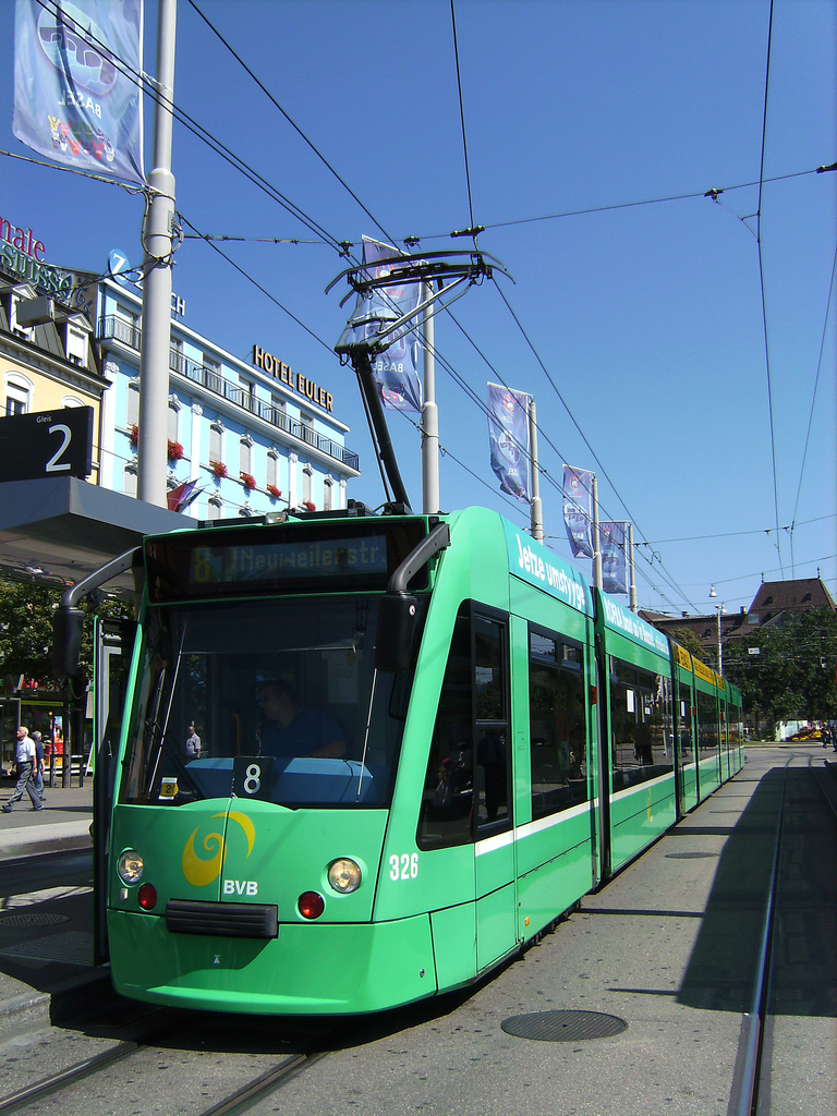 Modern low-floor Combino tram in Basel, Switzerland.